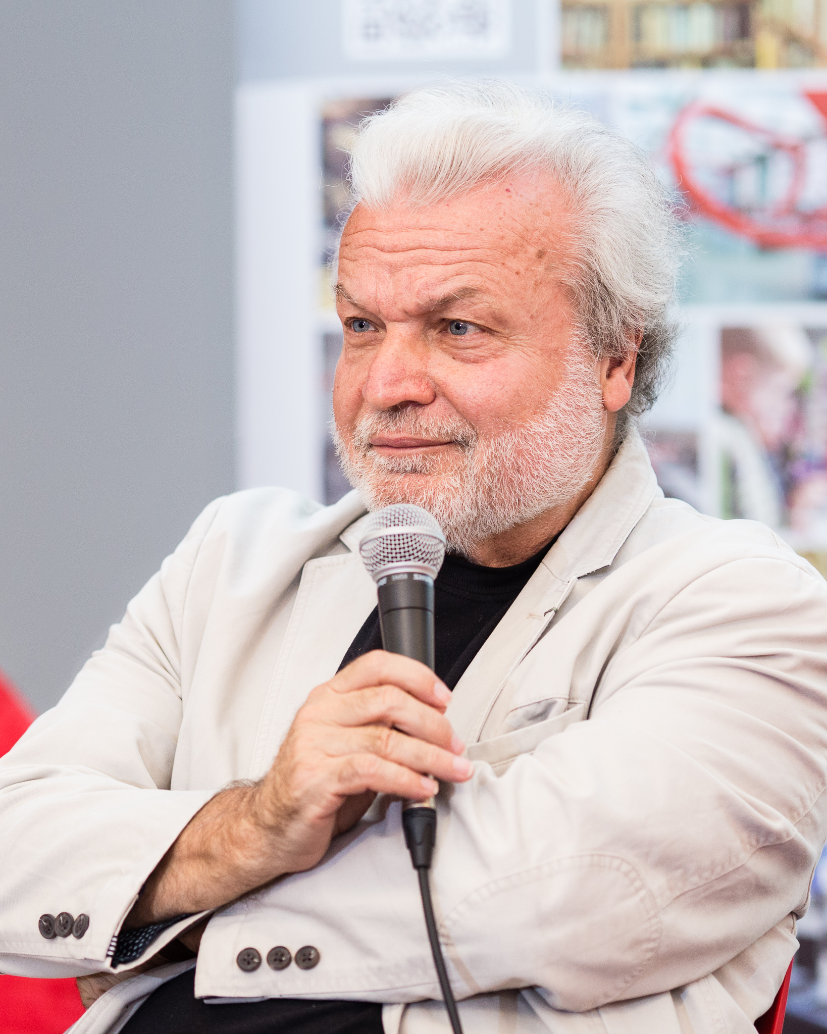 Nedim Gürsel on Authors’ Reading Month 2018, Wrocław, Poland